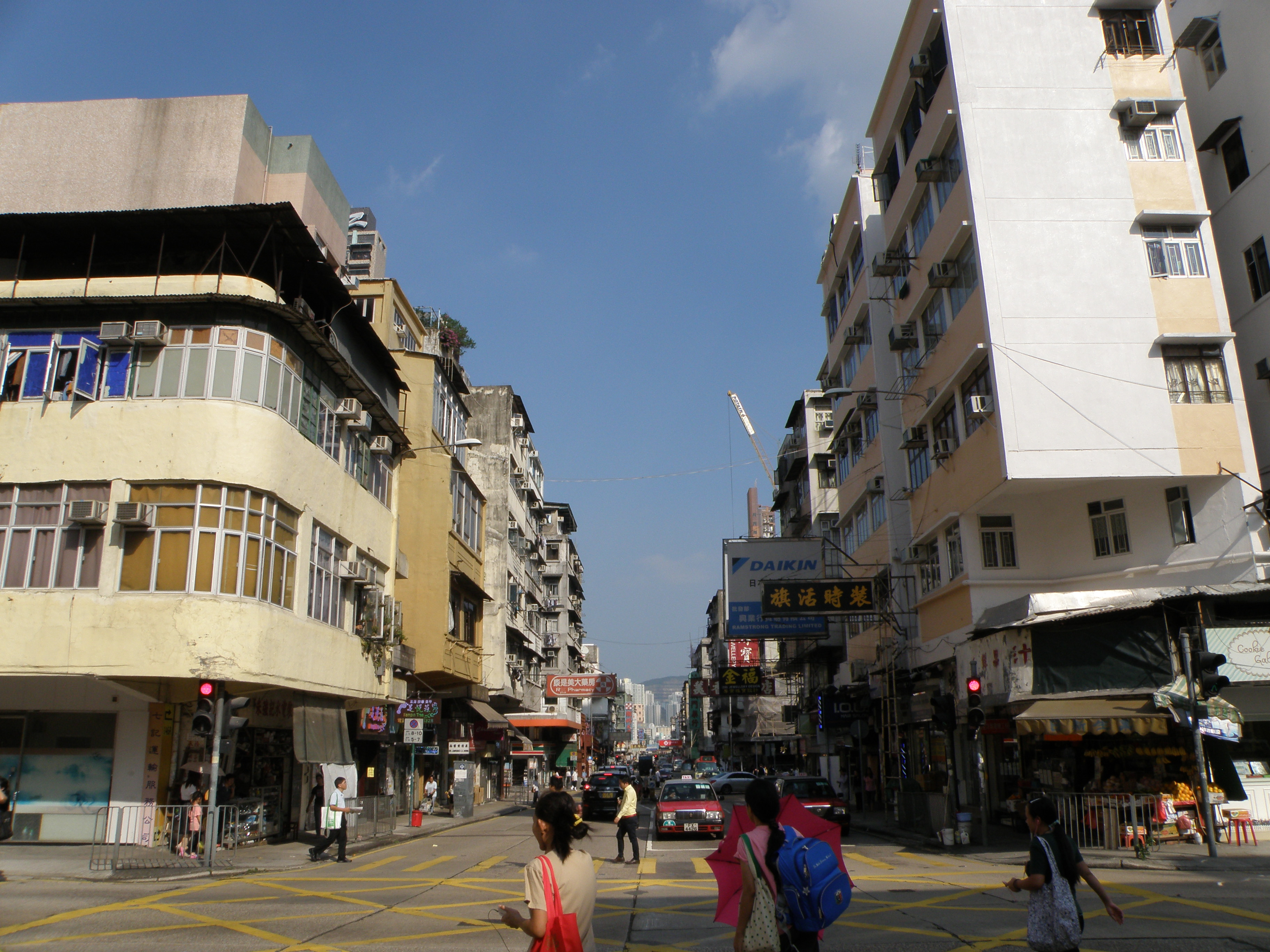 Nga Tsin Wai Road in Kowloon City, Hong Kong.